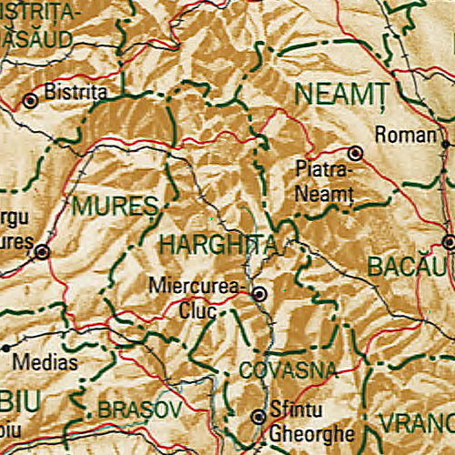 Map of Harghita County, Romania.